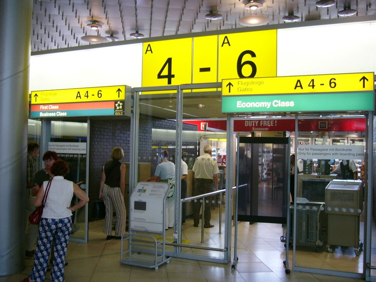 Entrance to gates at Hannover International Airport (Germany) — note: there are different passing gates depending what Travel class each PAX has